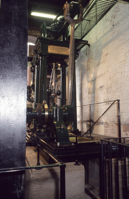 Coldharbour Mill - beam engine, near to Smithincott, Devon, Great Britain. Former Alboin brewery beam engine by Kittoe & Brotherhood of London in 1867. Now re-erected in an original beam engine house.